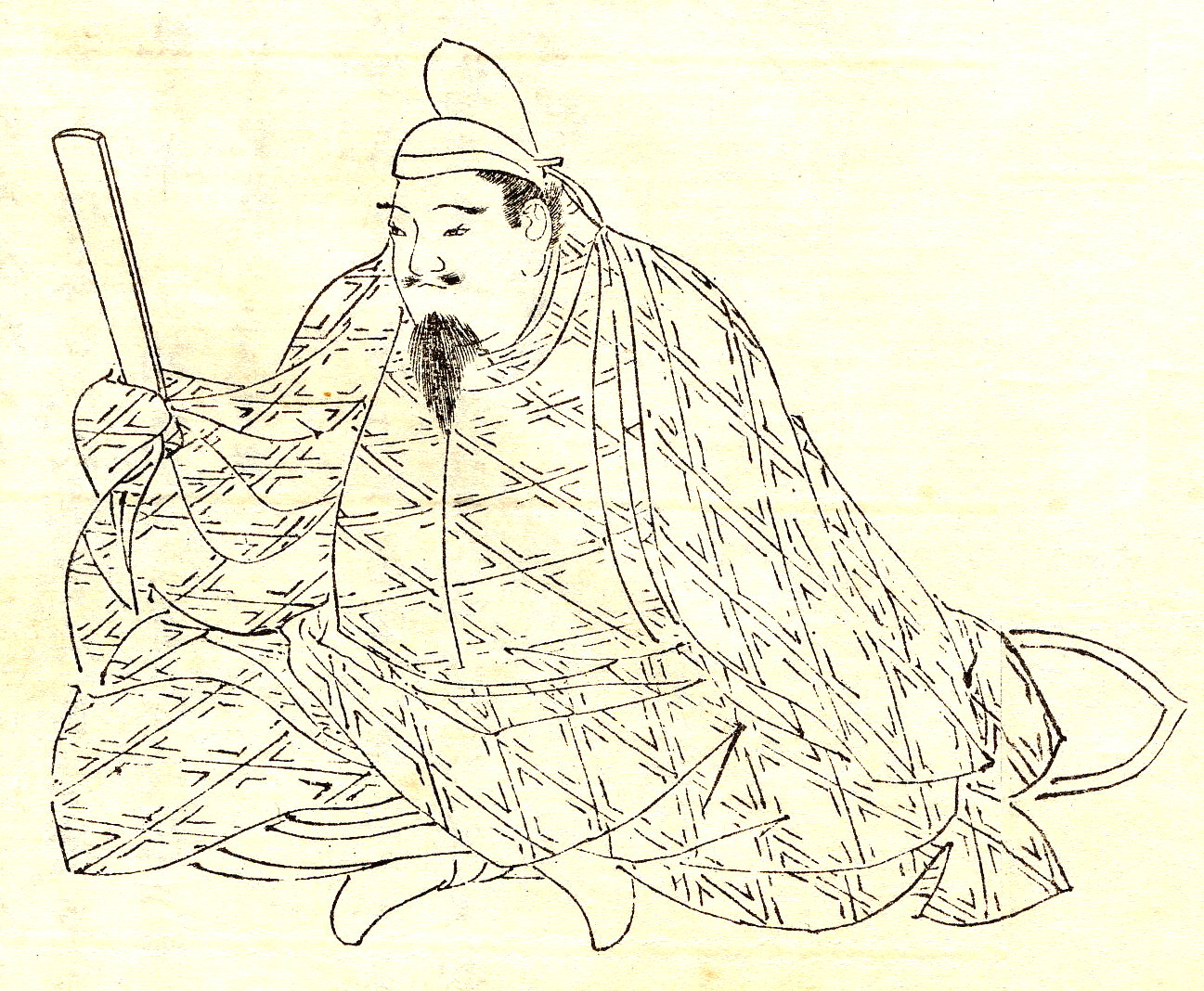 Taira no Takamune(平高棟) was a Japanese court noble.